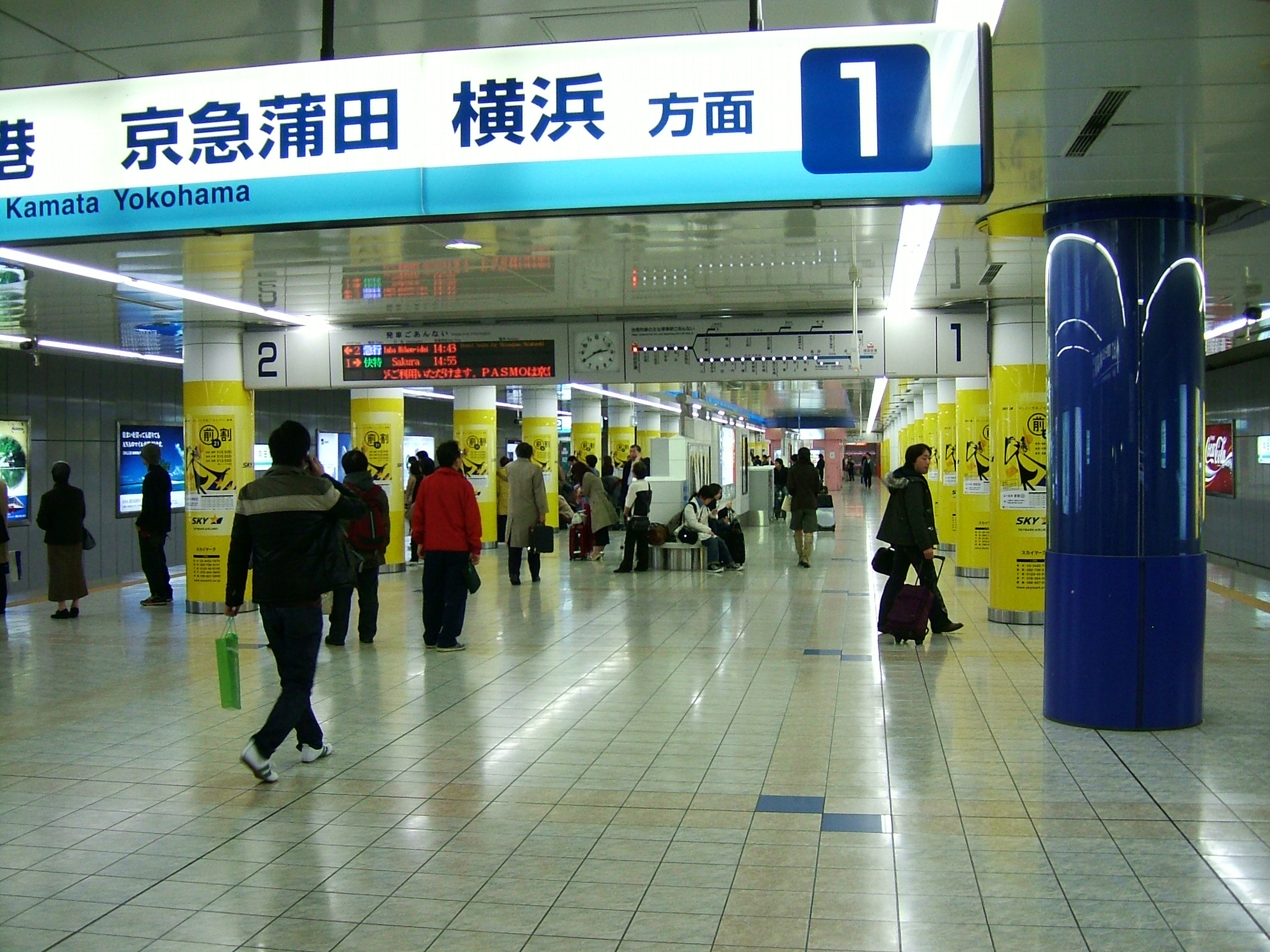 The platform at Haneda Airport Station on the Keikyū Airport Line